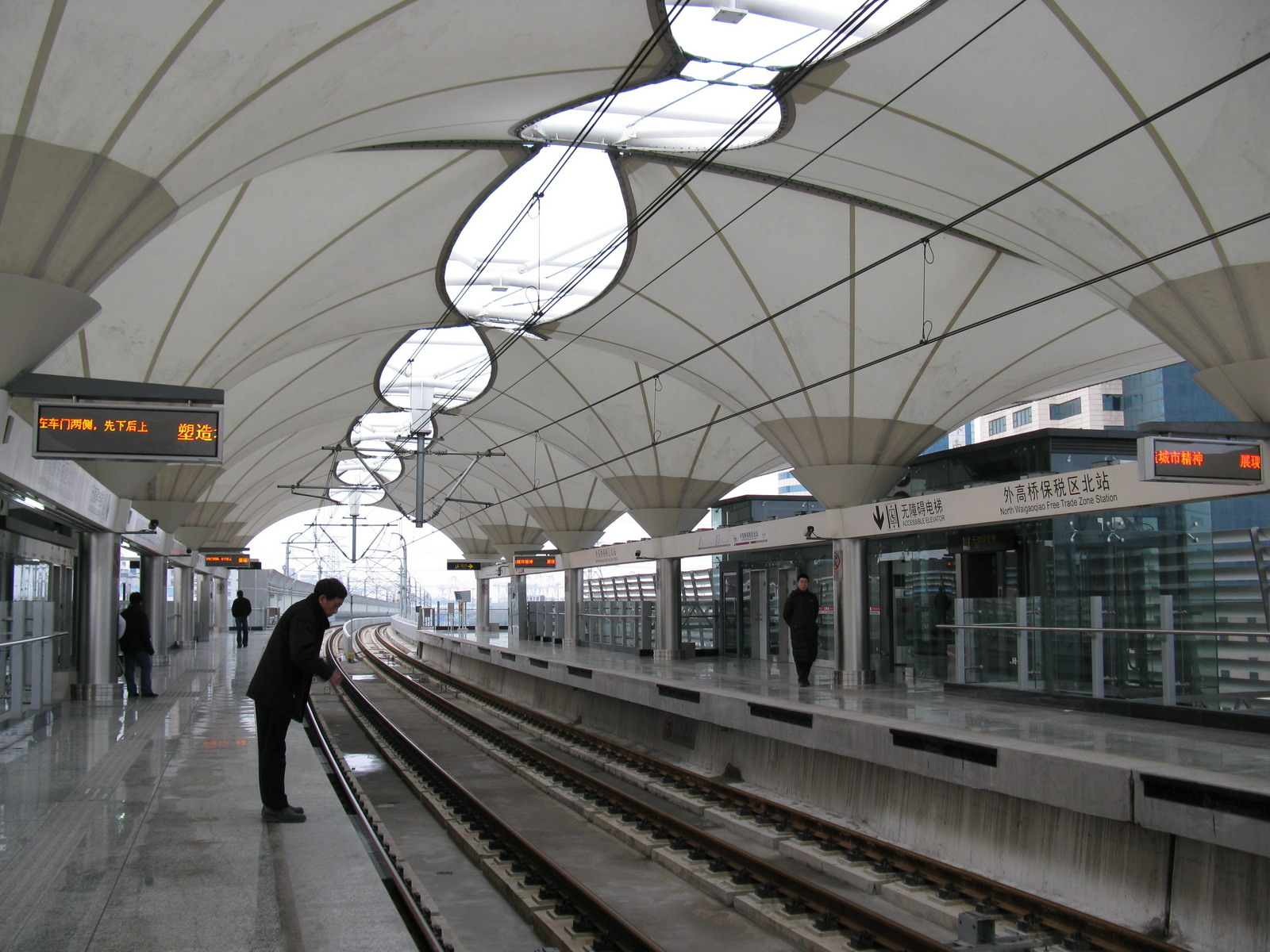 外高桥保税区北站 6号线月台 Line 6 Platform of North Waigaoqiao Free Trade Zone Station